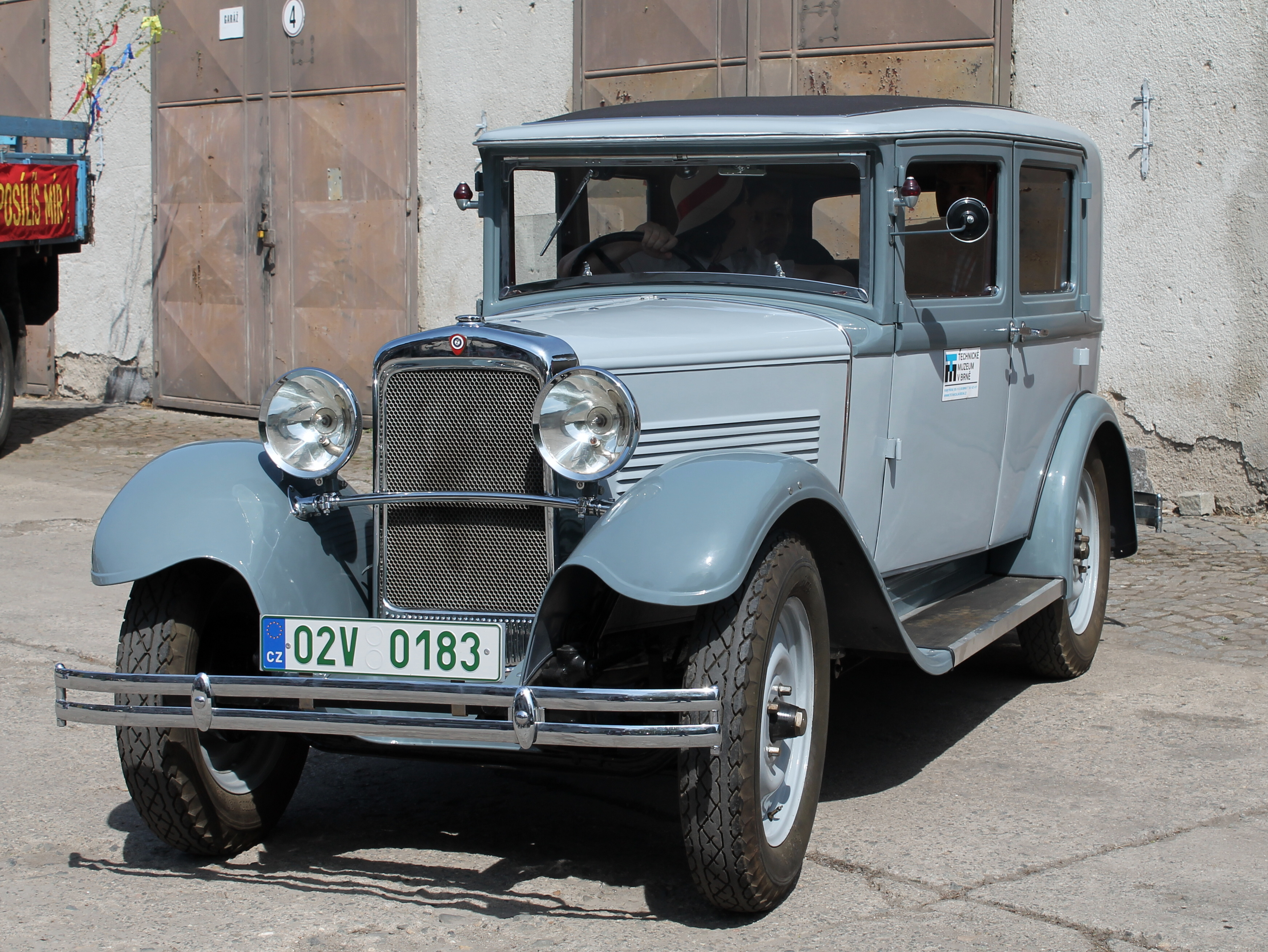 Zbrojovka Z 9 historical automobile, depository of Technical Museum in Brno, Czech Republic